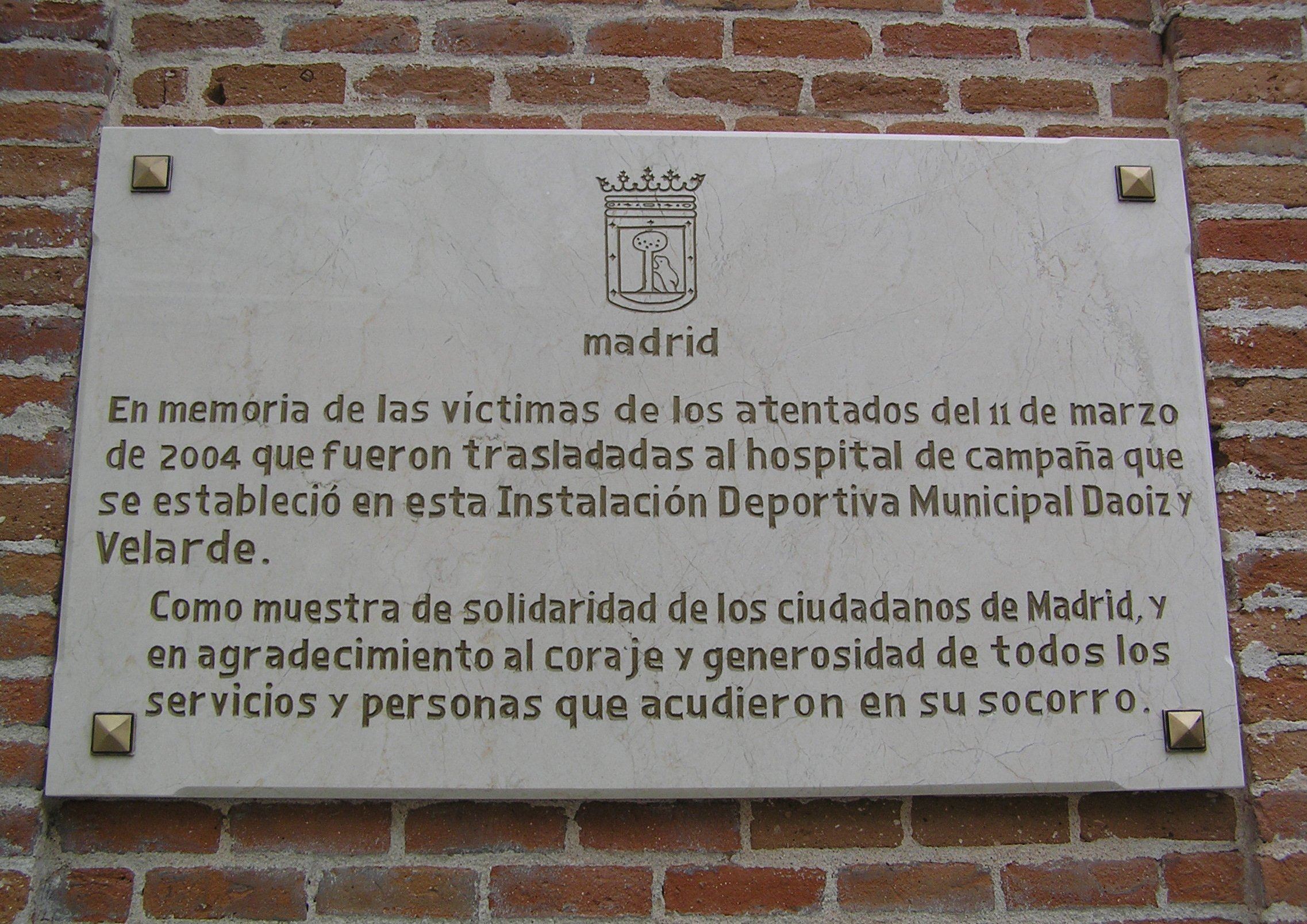 Plaque set up by the Madrid municipality in memory of the victims of the 11-M terror attack in Madrid (Spain)